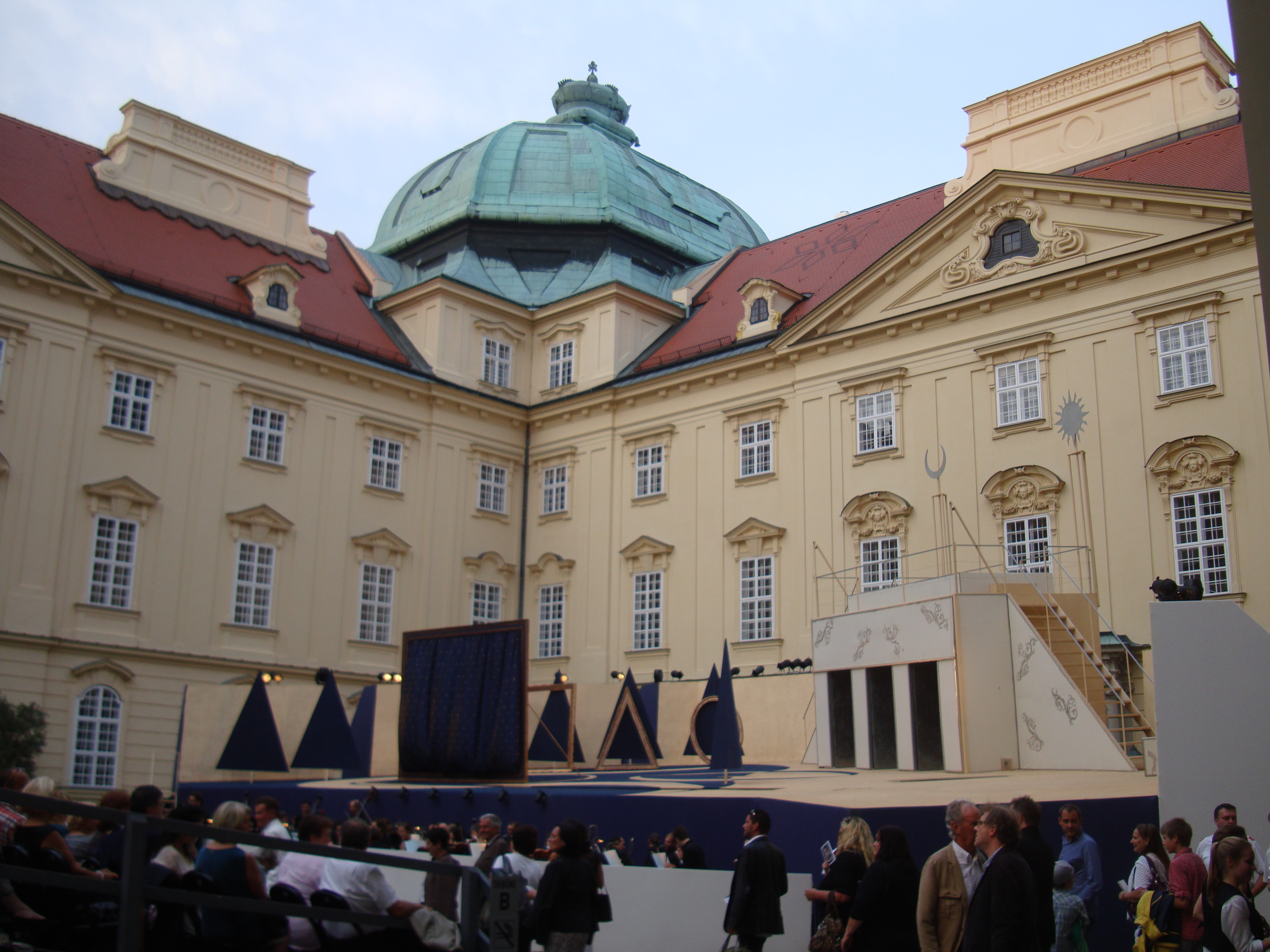 Magic Flute Kaiserhof 12